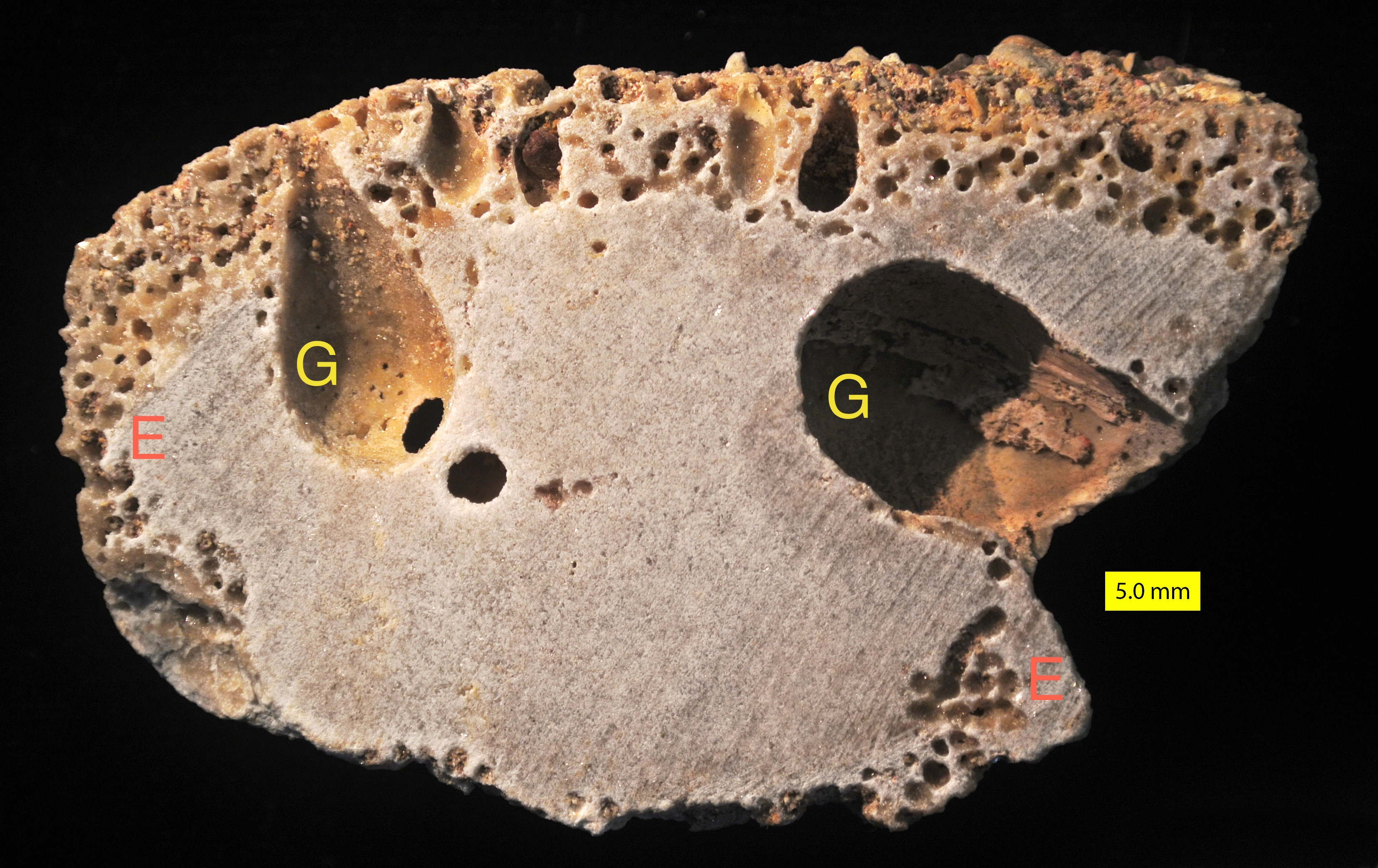 Gastrochaenolites (G) and Entobia (E) in limestone cobble from the Los Banós Formation, Upper Miocene, SE Spain.